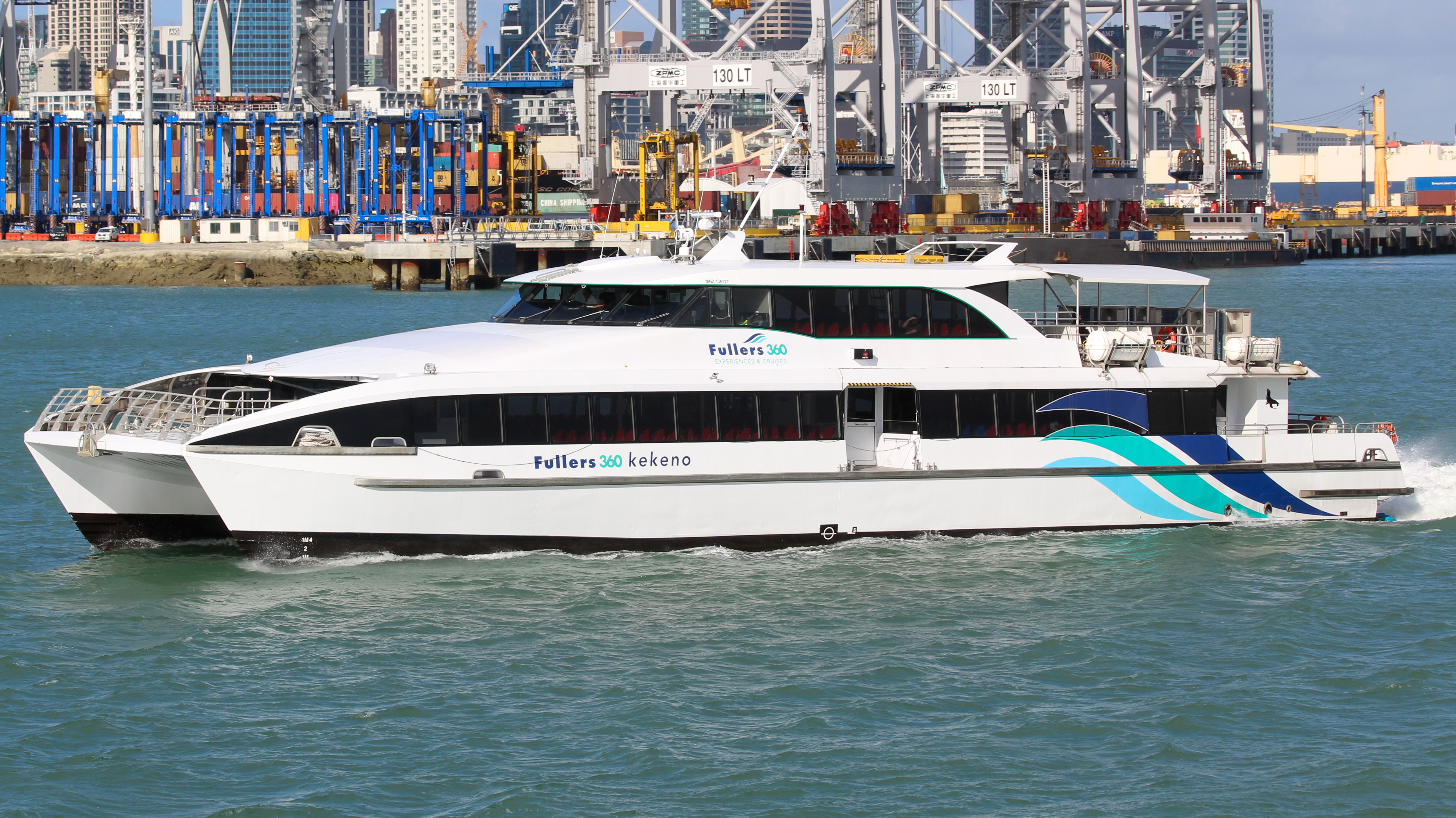 Kekeno passing the port of Auckland